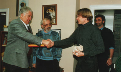 DVM Helmut Pechlaner, Dr Kurt Kolar and Dan Koehl, during official farewell party for Koehl, Tiergarten Schönbrunn 1998